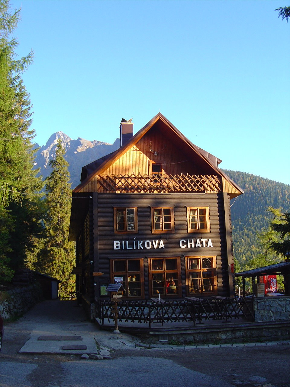 Bilíkova chata in High Tatras